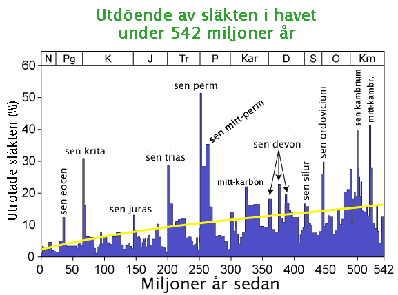 Histograms of extinctions of species in the sea -- millions of years ago